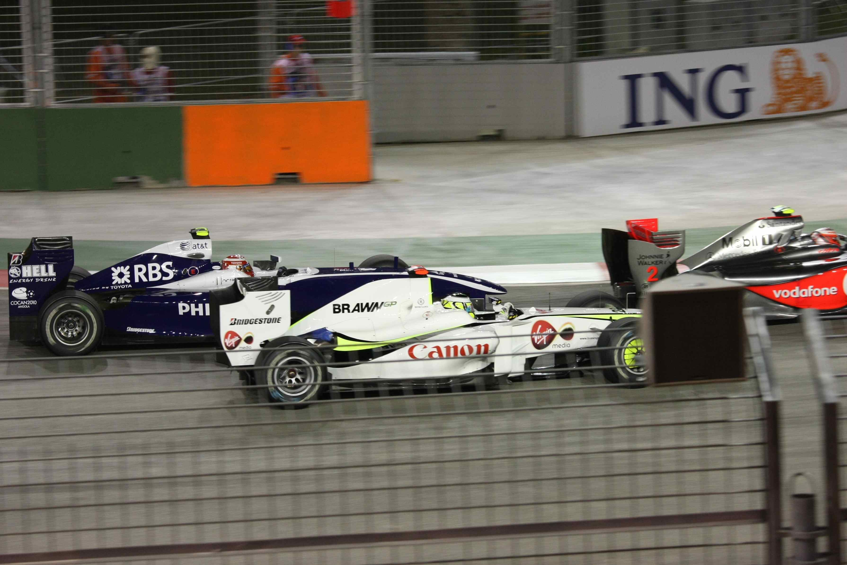 The start of the 2009 Singapore Grand Prix.